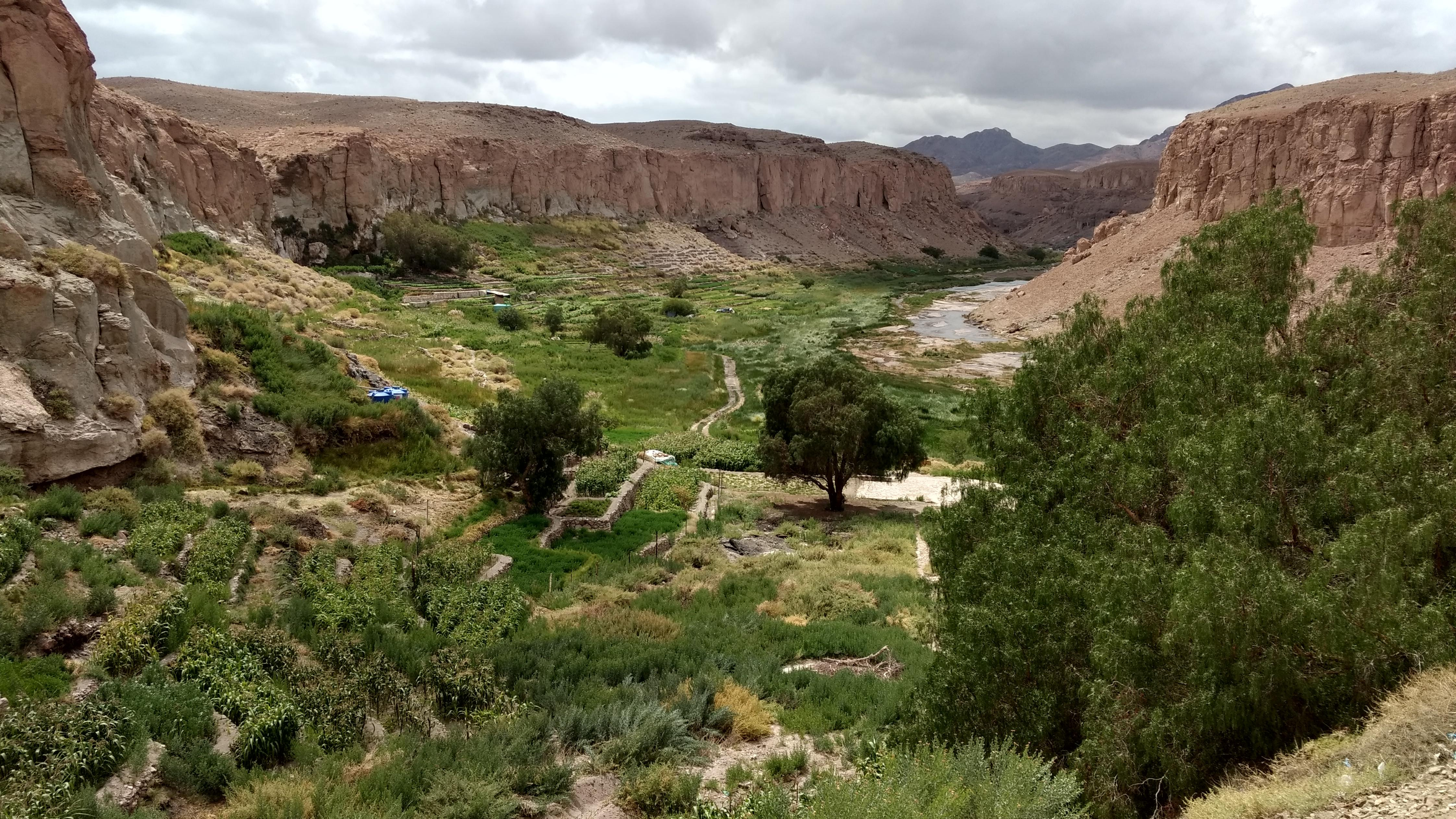 Canyon of Rio Salado near Ayquina, February 2017